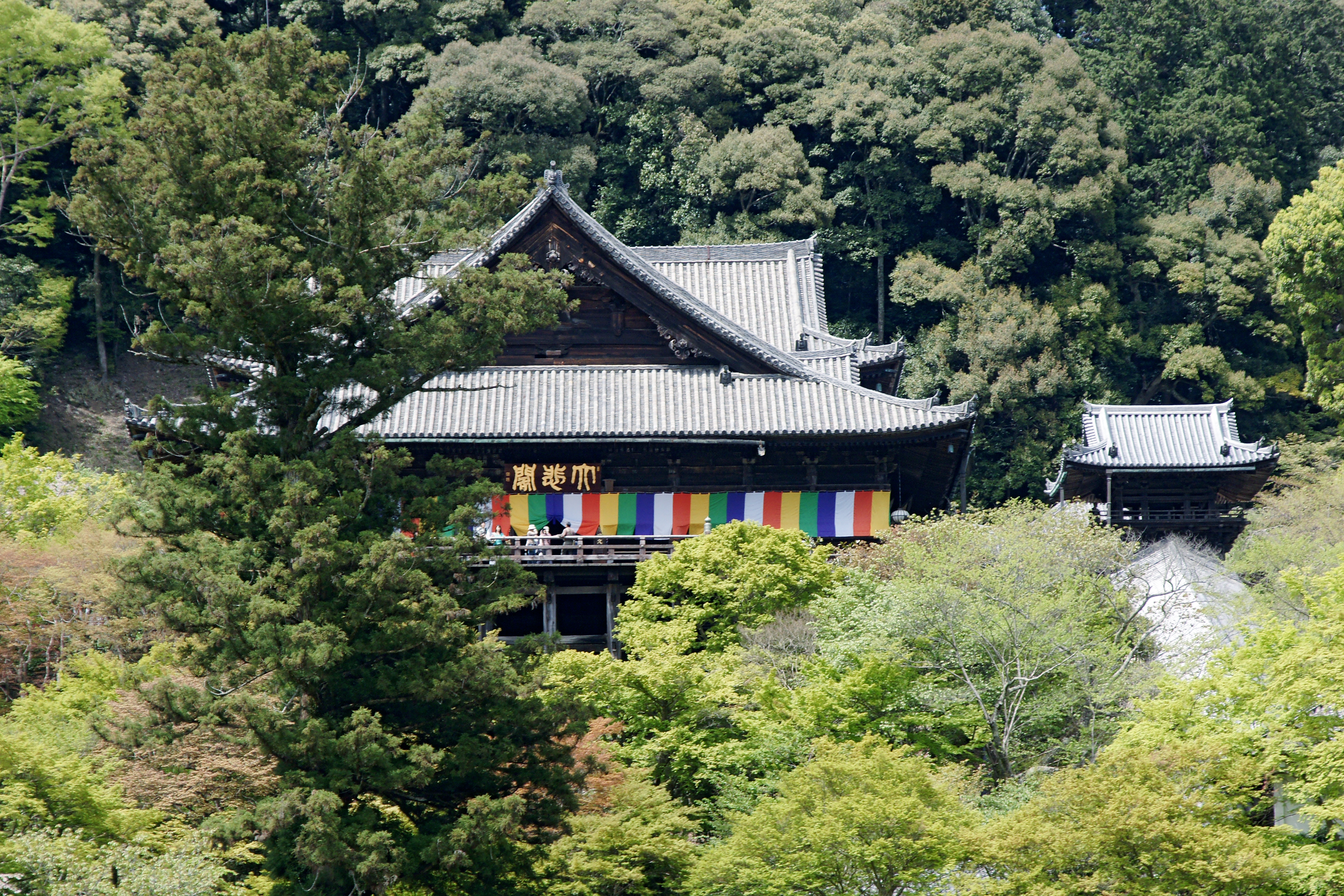 Hondo of Hasedera Buddhist temple (Japan's national treasure), Sakurai, Nara prefecture, Japan